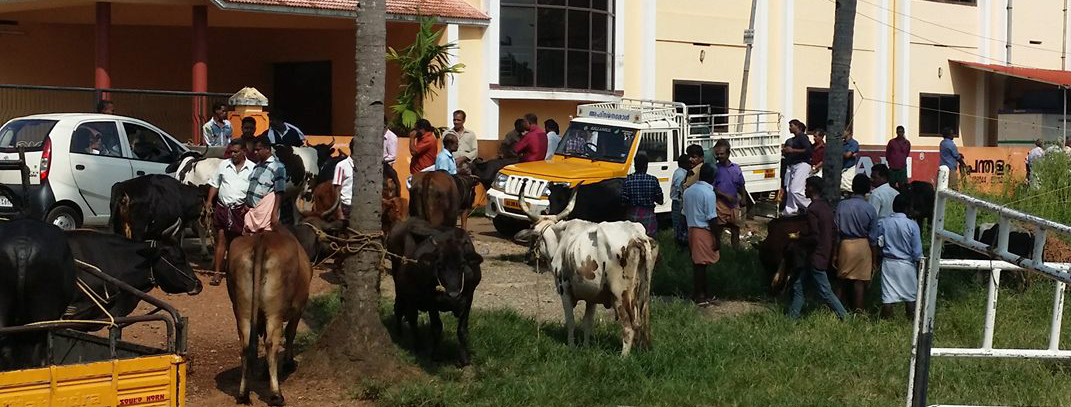 Cattle market 'kaali chantha' at Elavumthitta, held on every 9th and 22nd of Malayalam month.